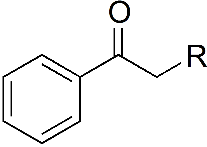 The phenacyl group.